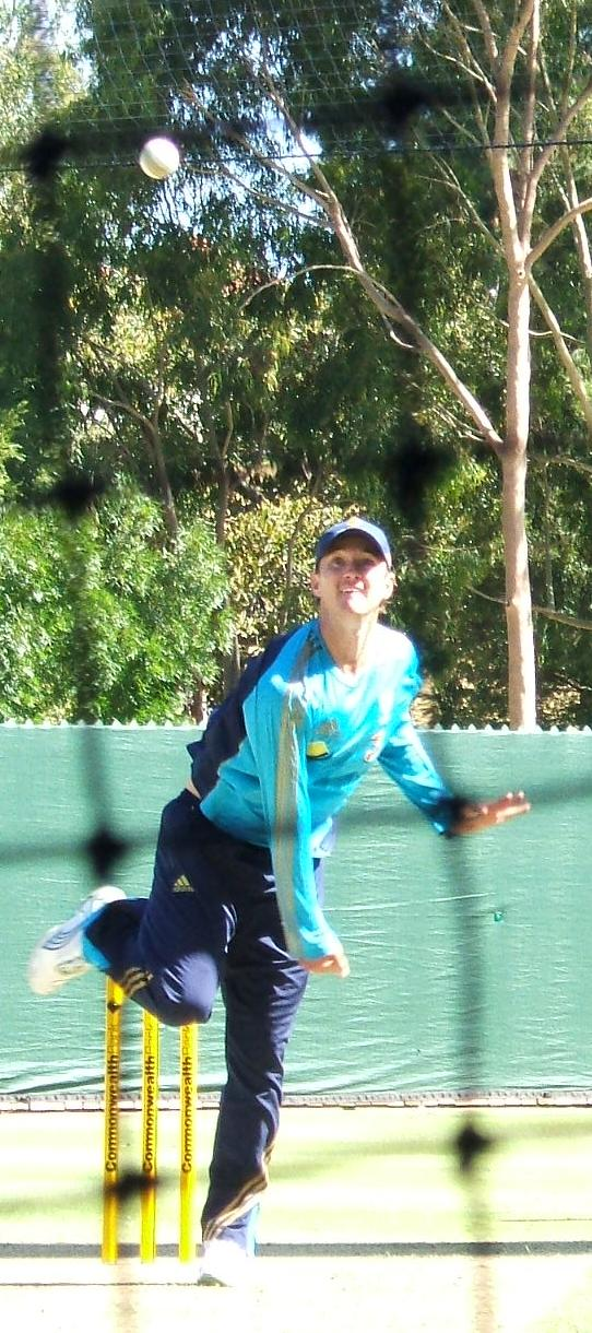 Nathan Hauritz at a training session at the Adelaide Oval